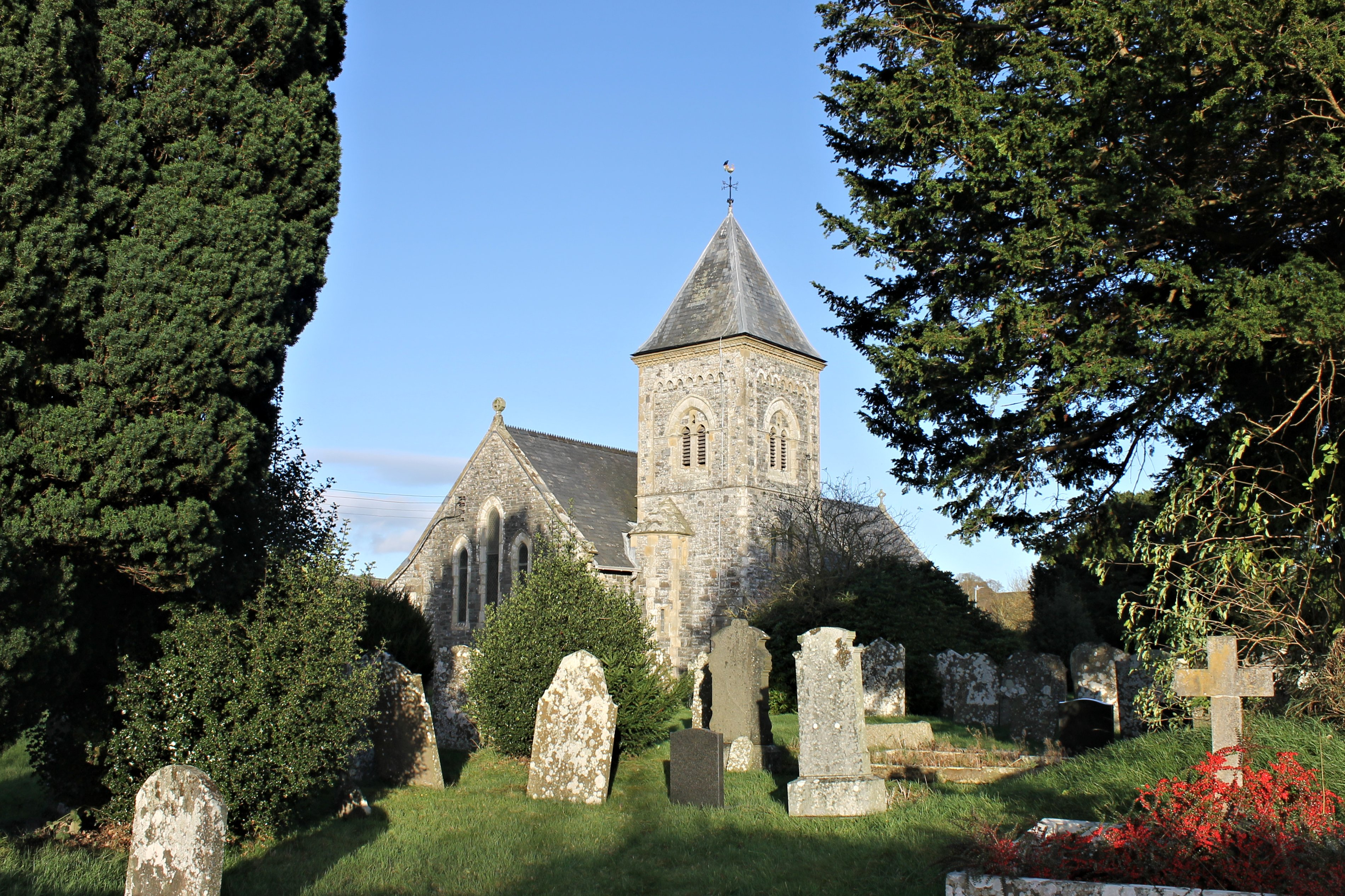 Nat Grid No: SO0869864302. Church of St Padarn , Llanbadarn Fawr, between Builth Wells and Newtown, Mid Wales. Erected in 1879, replacing a stone church here in the first half of the 12thC.